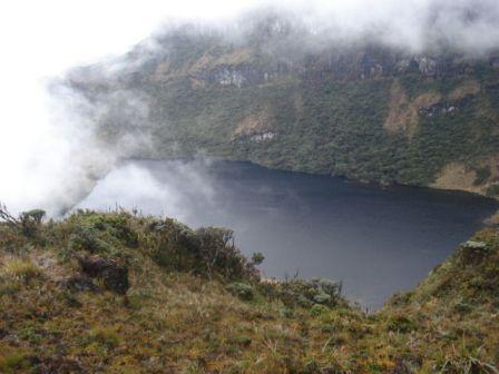 lagunas